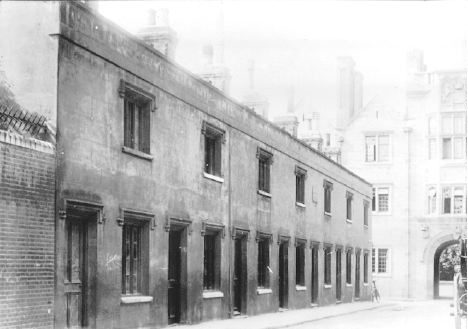 Almshouses in 1911 - Queens' College, Cambridge